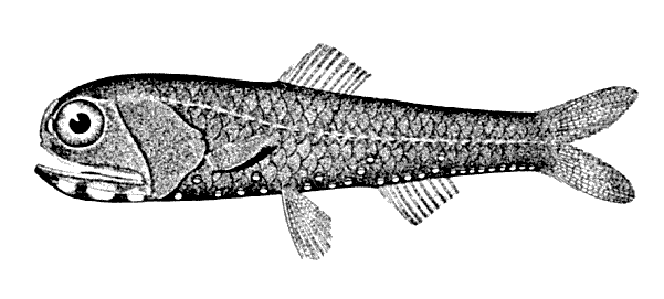 California headlightfish (Diaphus theta), a species of lanternfish. From Good and Bean; original plate is from the NOAA Photo Library and has been enhanced. Image ID: figb0601, Historic NMFS Collection Category:Fauna of Western United States